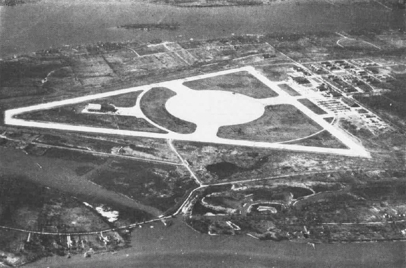 Aerial view of the U.S. Naval Air Station Grosse Isle, Michigan (USA), in the 1940s. Naval Air Station Glynco was an operational naval air station from 1927 to 1969.